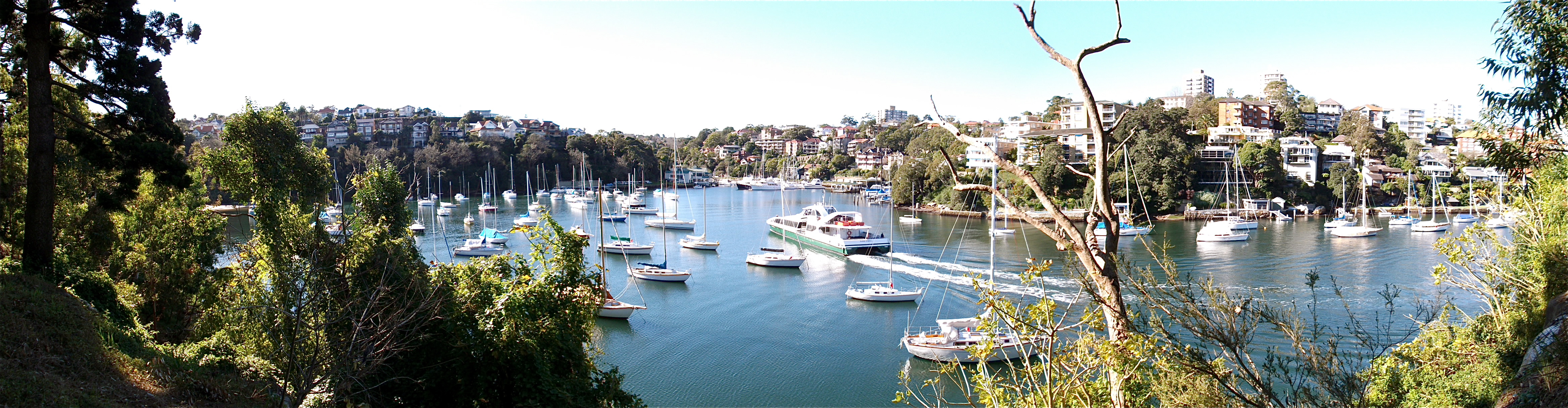 Panoramic view of Mosman Bay, from Cremorne Point. Photo taken June 2012.